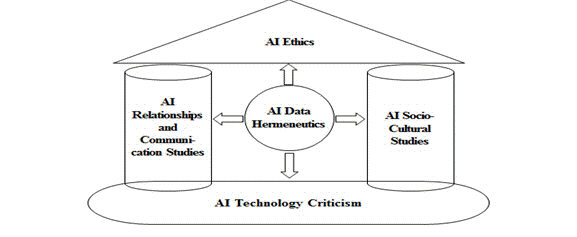 The structure of Artificial Intelligence Humanities